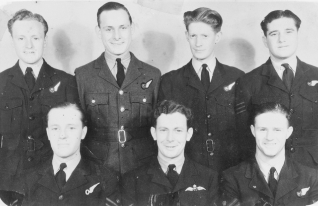 AWM caption : Group portrait of seven members of 467 Squadron, RAAF. Identified, left to right, back row: 425605 Flight Sergeant (Flt Sgt) Verne Edward Cockroft, bombardier, of Brisbane, Qld, killed in action on 8 July 1944 Flight Engineer Sergeant George Arthur Hays, 1591247 RAFVR, of Forest Hall, Northumberland, England, killed in action on 8 July 1944 408443 Flt Sgt William Deldon Douglas Killworth, mid upper gunner, killed in action on 8 July 1944 429643 Flt Sgt James Pat Steffan, rear gunner, killed in action on 8 July 1944 Front row: 415032 Warrant Officer Clifford Cecil (Cecil) Jones, navigator, killed in action 8 July 1944 418012 Flying Officer Philip Wyatt Ryan, pilot, of Beechworth, Vic, killed in action on 8 July 1944 419481 Flt Sgt Leonard Haig Porritt, of Beechworth, Vic, killed in action on 8 July 1944 Burial or Cremation Place: Courgent Communal Cemetery, Yvelines, France.